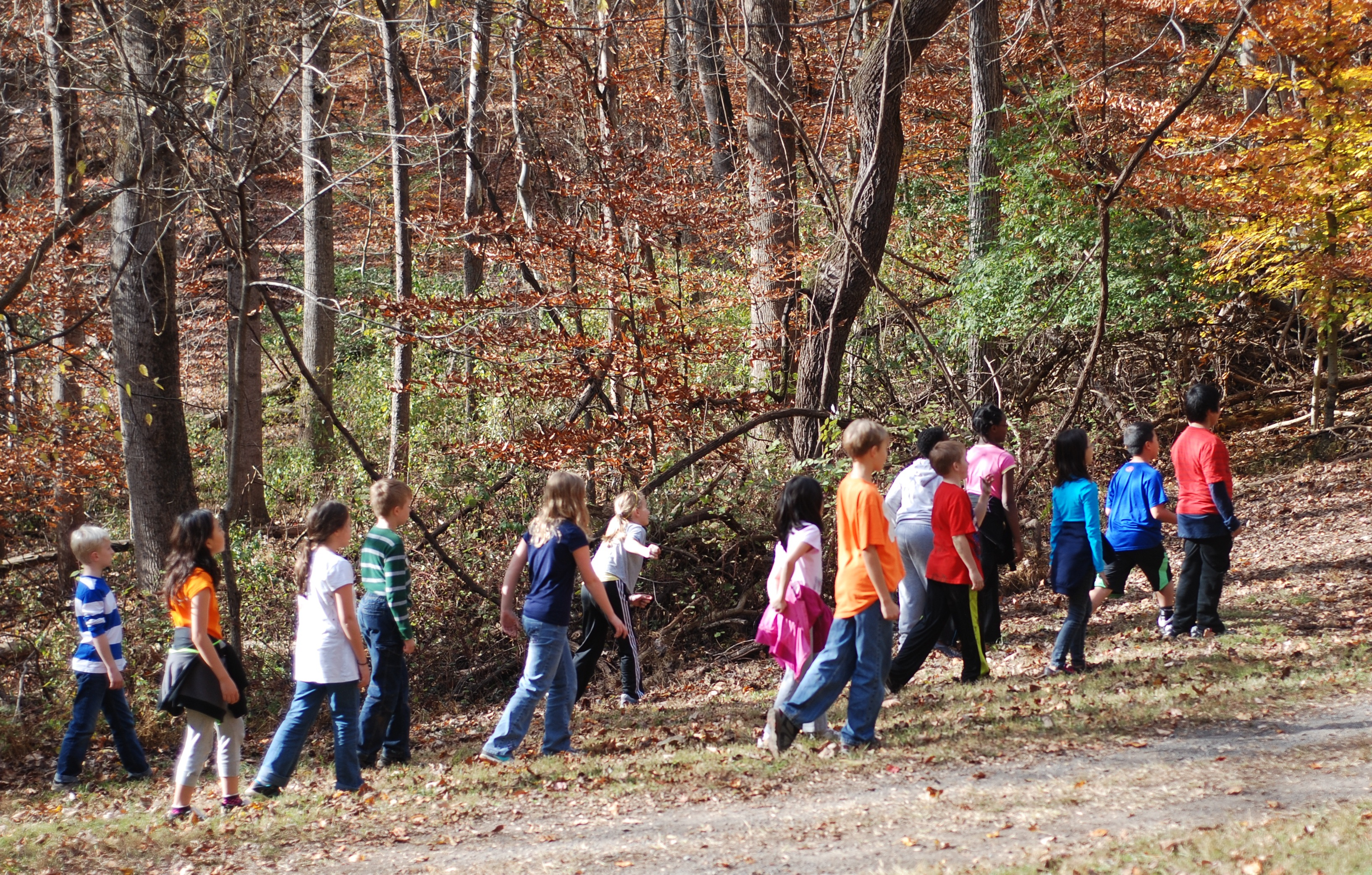 Hemlock Overlook Challenge Course: Red light/Green light, where the "Curator" stands at one end of the playing field, with the rest of the players at the other end. "Curator" turns their back to the others and calls out "Green light!" or "Red Light!" The players then run as fast as they can towards "Curator". At any time, "Curator" can face the players, calling out "Red light", and the others must freeze in place. If anyone fails to stop, they are out or must return to the starting line. In this case the game had an additional twist, where the players were trying to steal "Curator's" water battle and bring it back to their end of the field. Once battle was moved the "Curator" has 2 or 3 guesses as who has the battle during "Red light". If he guesses right than the players must return to the starting line. As with other Hemlock Overlook chalenges, the success was a result of a planning and executing a strategy that usually required working as a team.